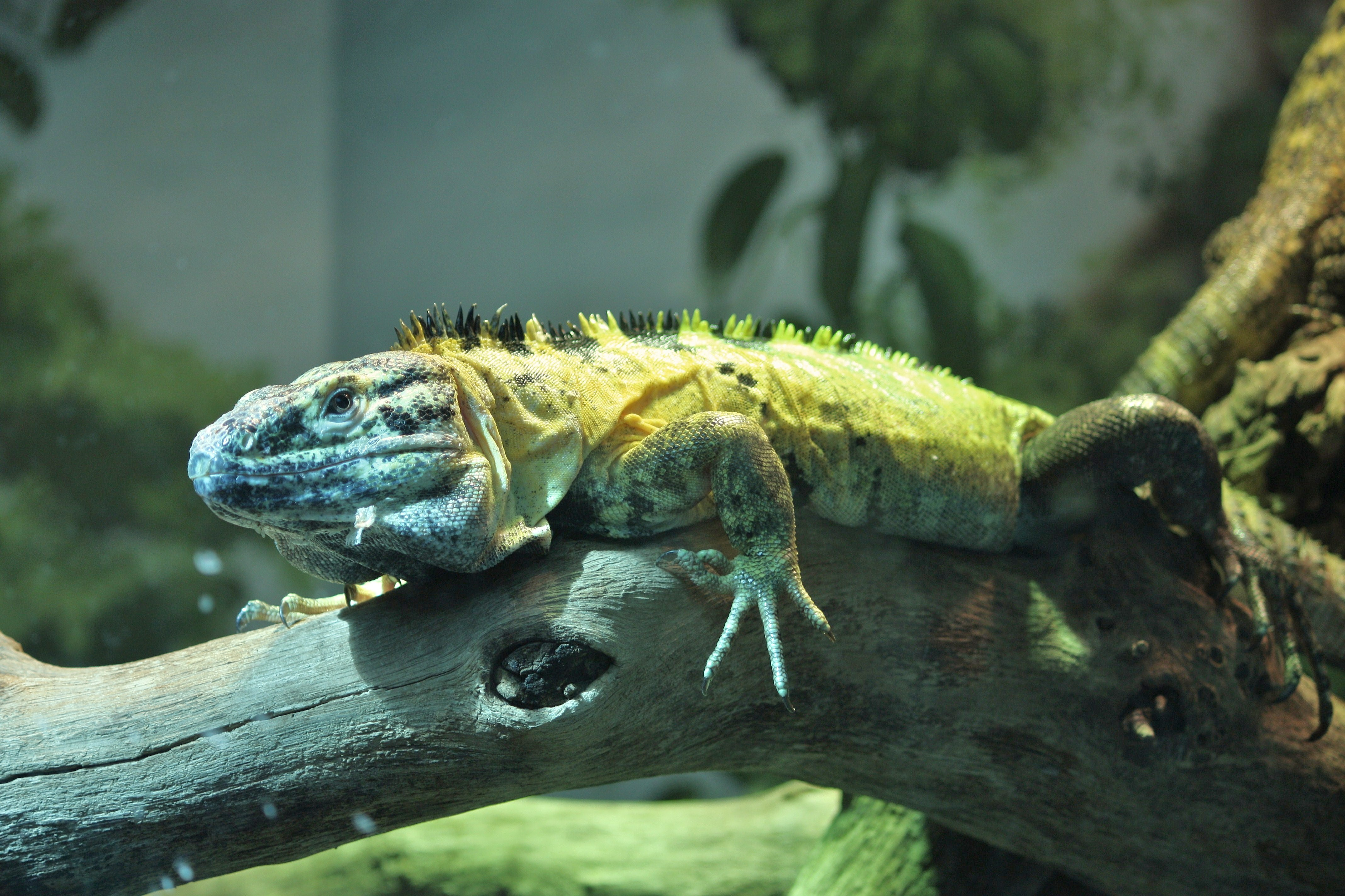 Mexican Spiny-tailed Iguana (Ctenosaura pectinata). Denver Zoo, Denver, Colorado.